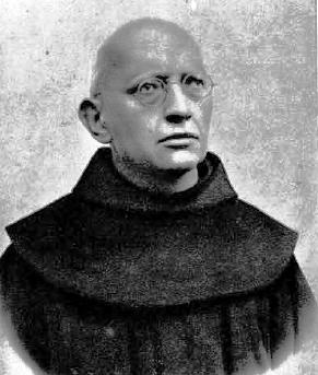 Kalist Heric (1850-1925) , Slovene priest